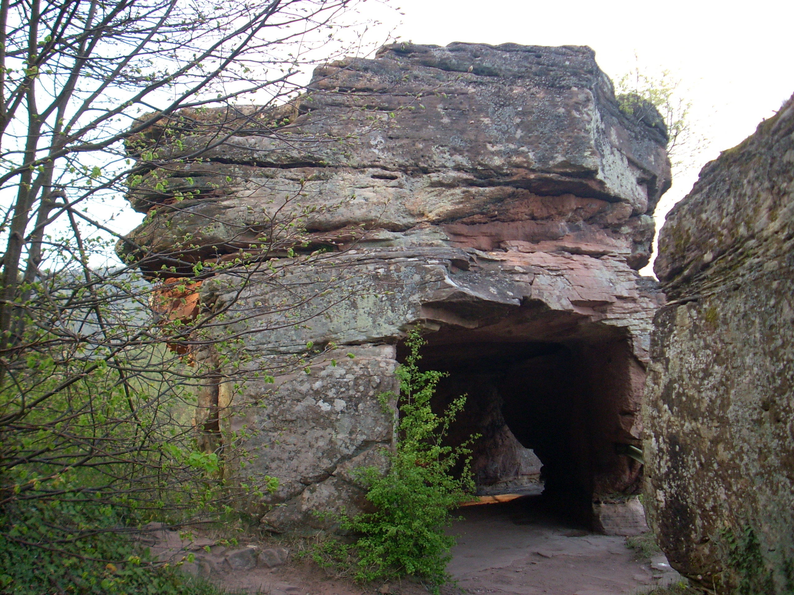 Vieux-Windstein castle, Alsace